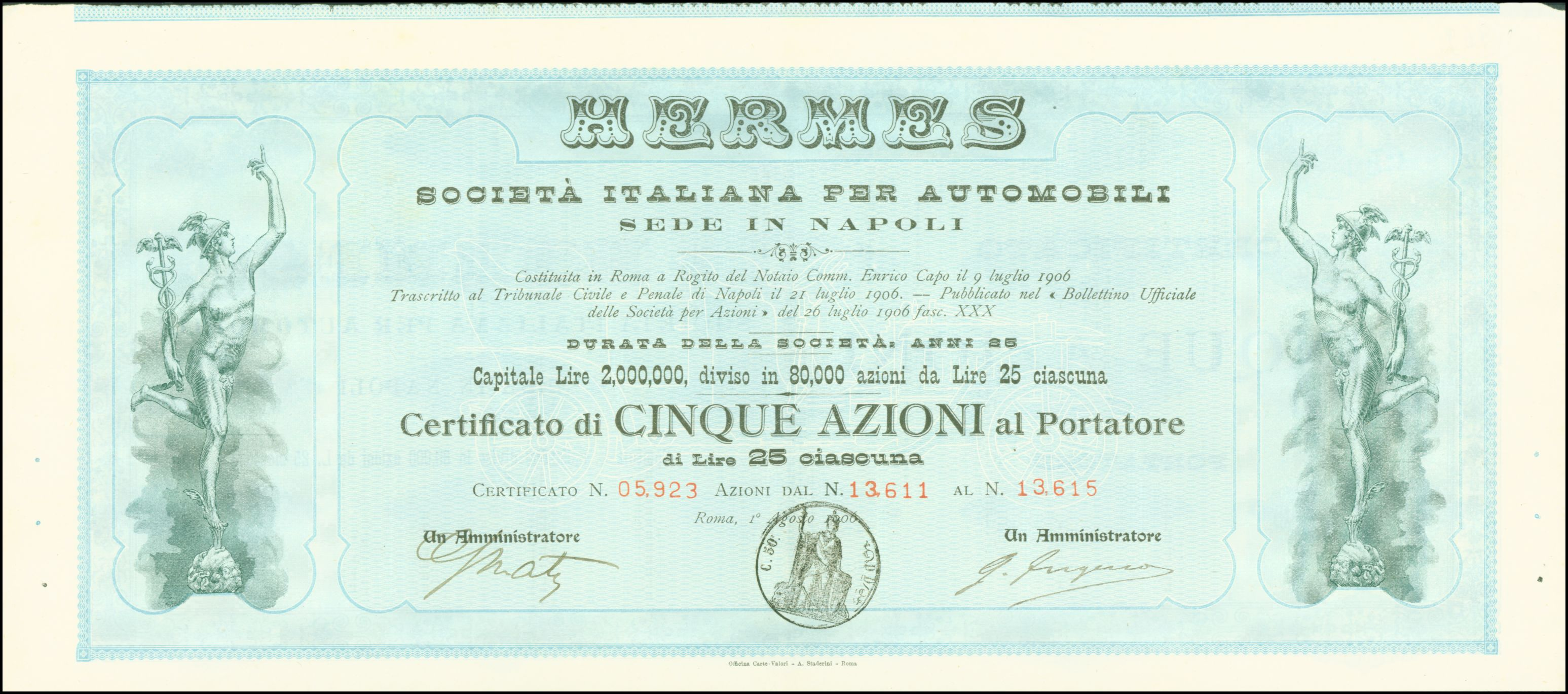 Share of Hermes Italiana, issued 1. August 1906